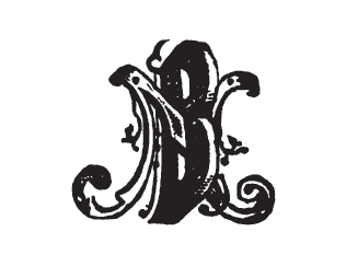 Colophon of publisher Natale Battezzati of Milan from an 1882 publication of the biography of Mauro Macchi